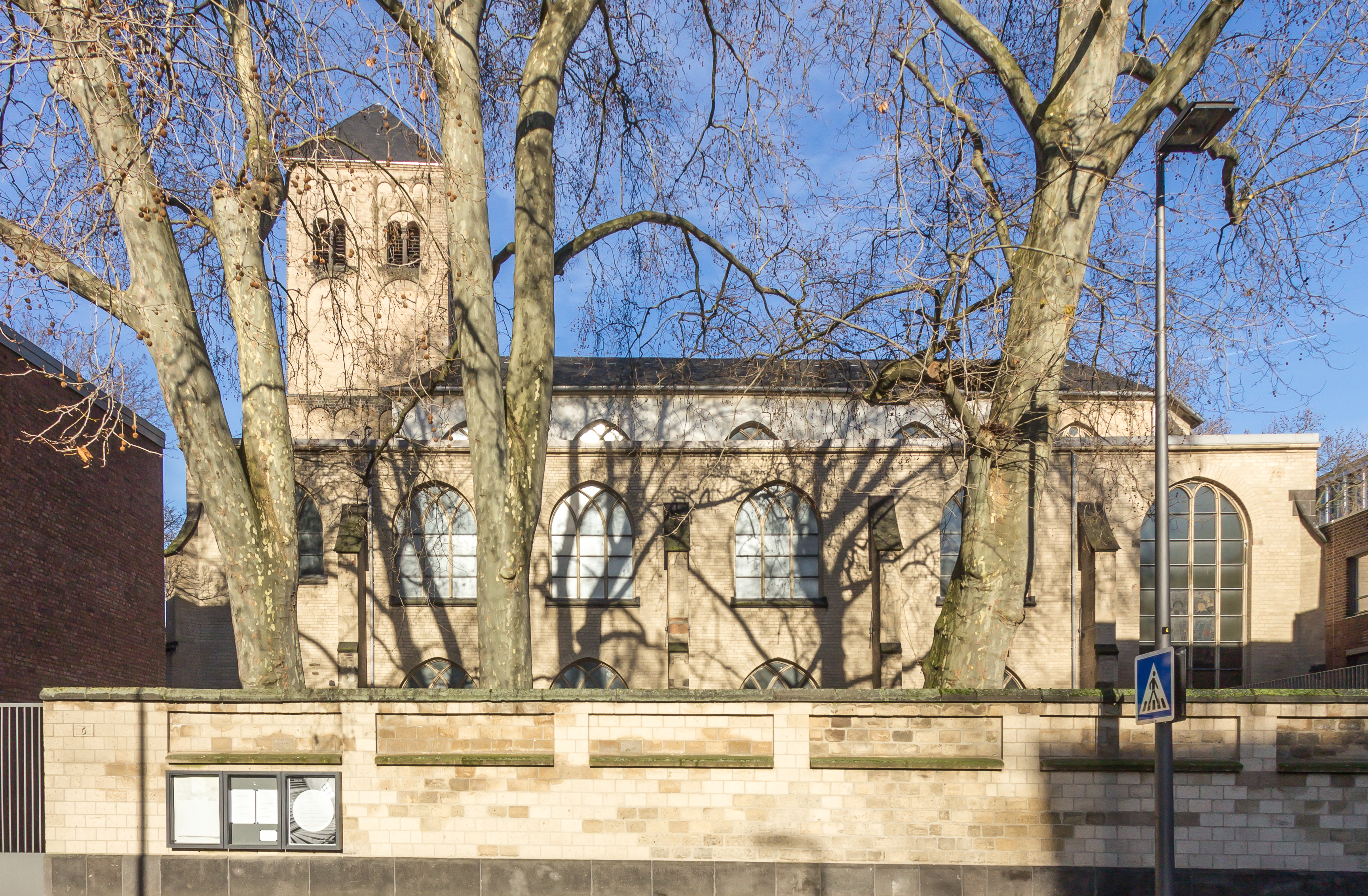 St. Peter in Cologne, Germany. Also known as "Kunst Station"